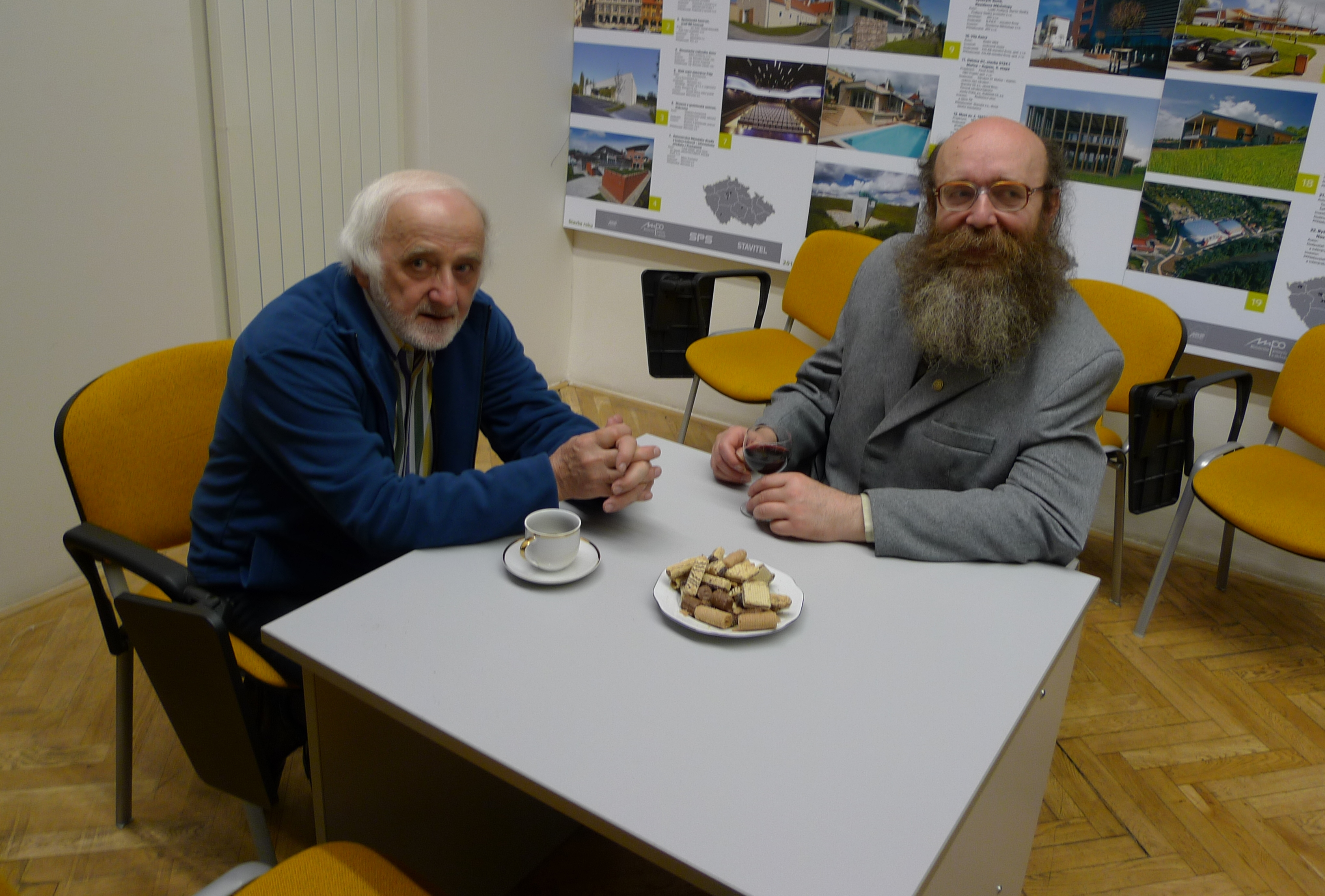 Czech writer Martin Petiška and designer Karel Vilgus in 2011 Česky: Český spisovatel Martin Petiška a grafik Karel Vilgus v budově nadate ABF na Václavském náměstí při křtu almanachu nižší šlechty v květnu 2011